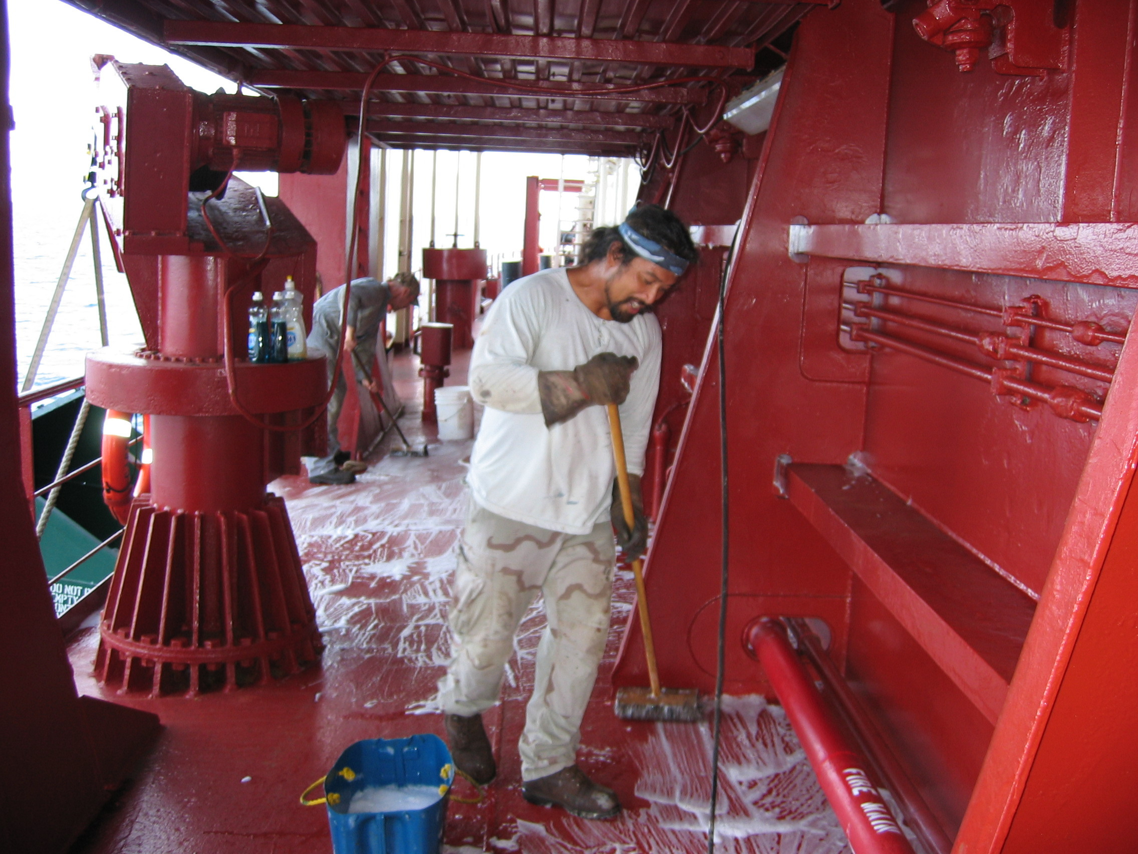 Ordinary Seaman (occupation) swab the deck of a container ship.